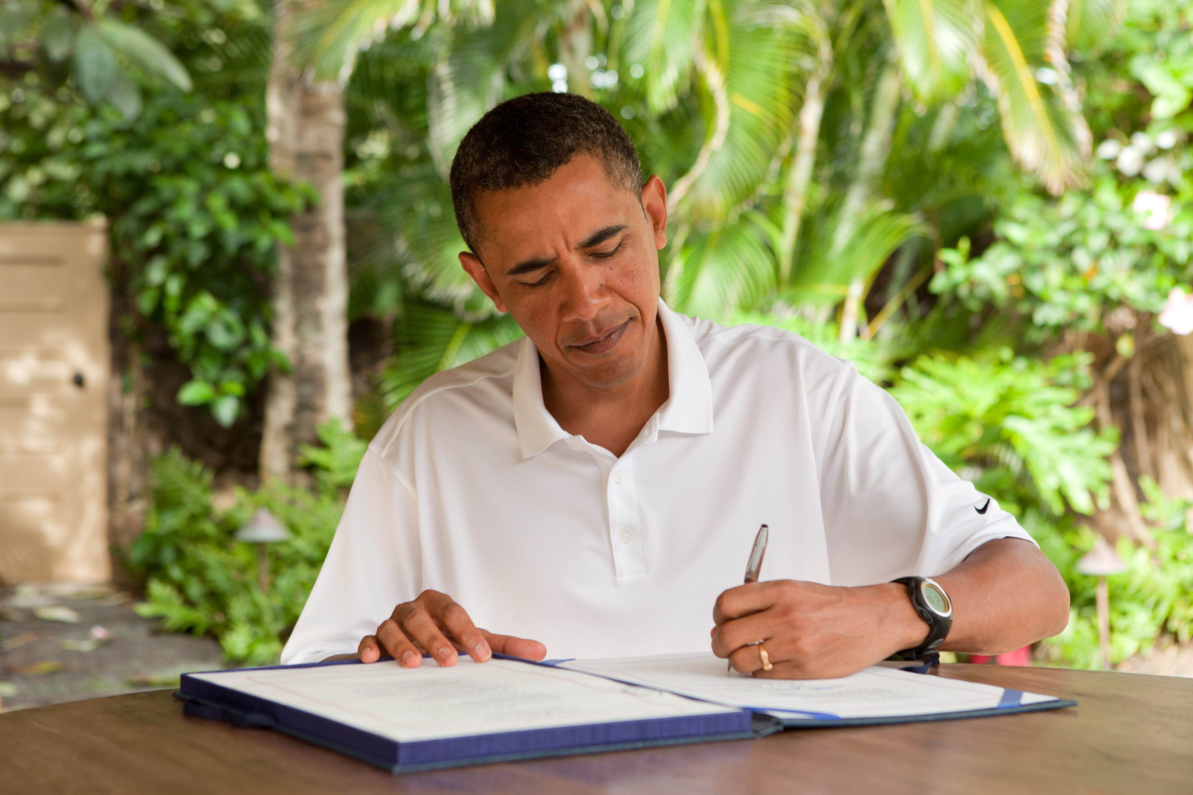 President Barack Obama signs H.R. 847, the "James Zadroga 9/11 Health and Compensation Act" in Kailua, Hawaii, January 2, 2011.